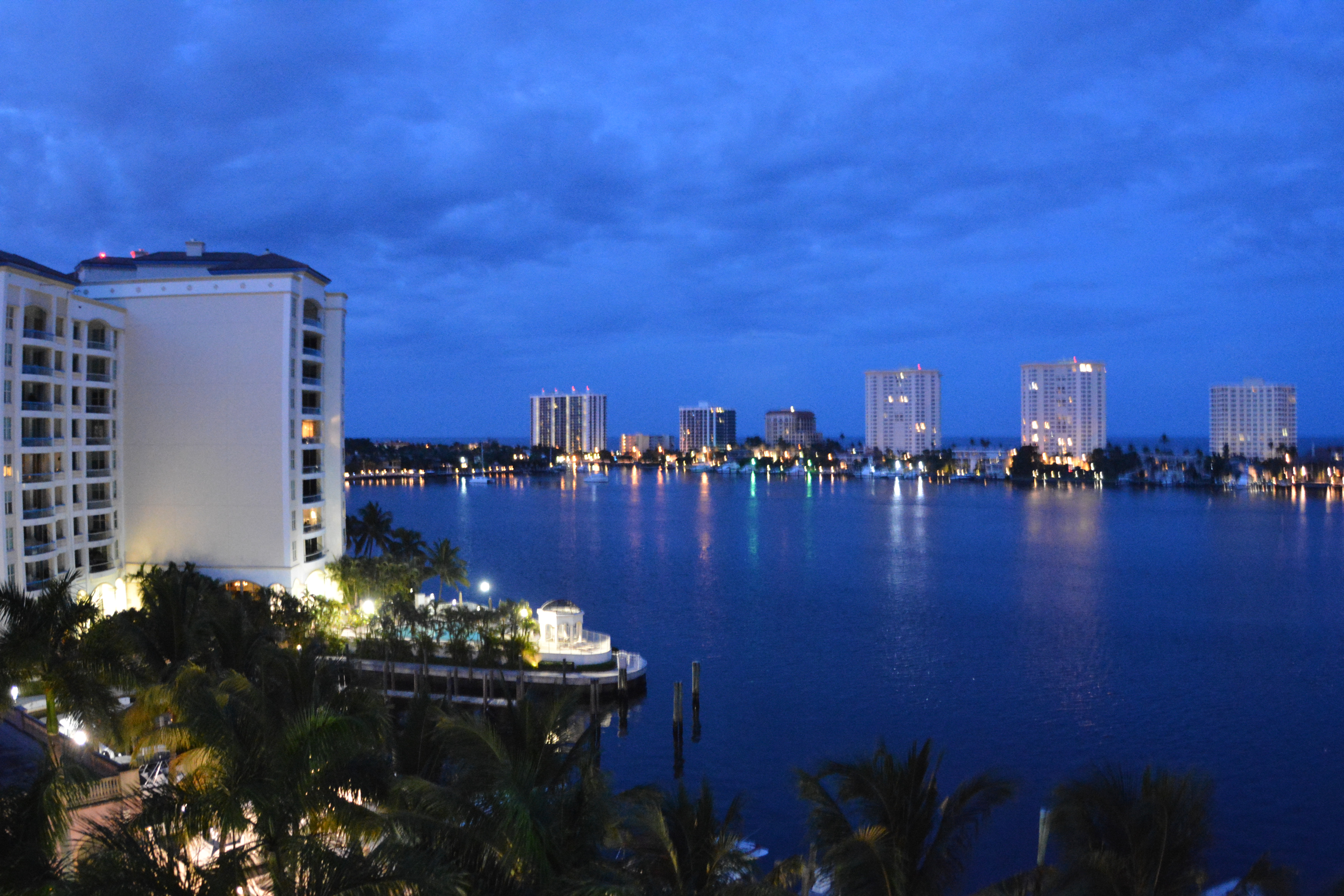 Sunset in Boca Raton Florida photo by D Ramey Logan